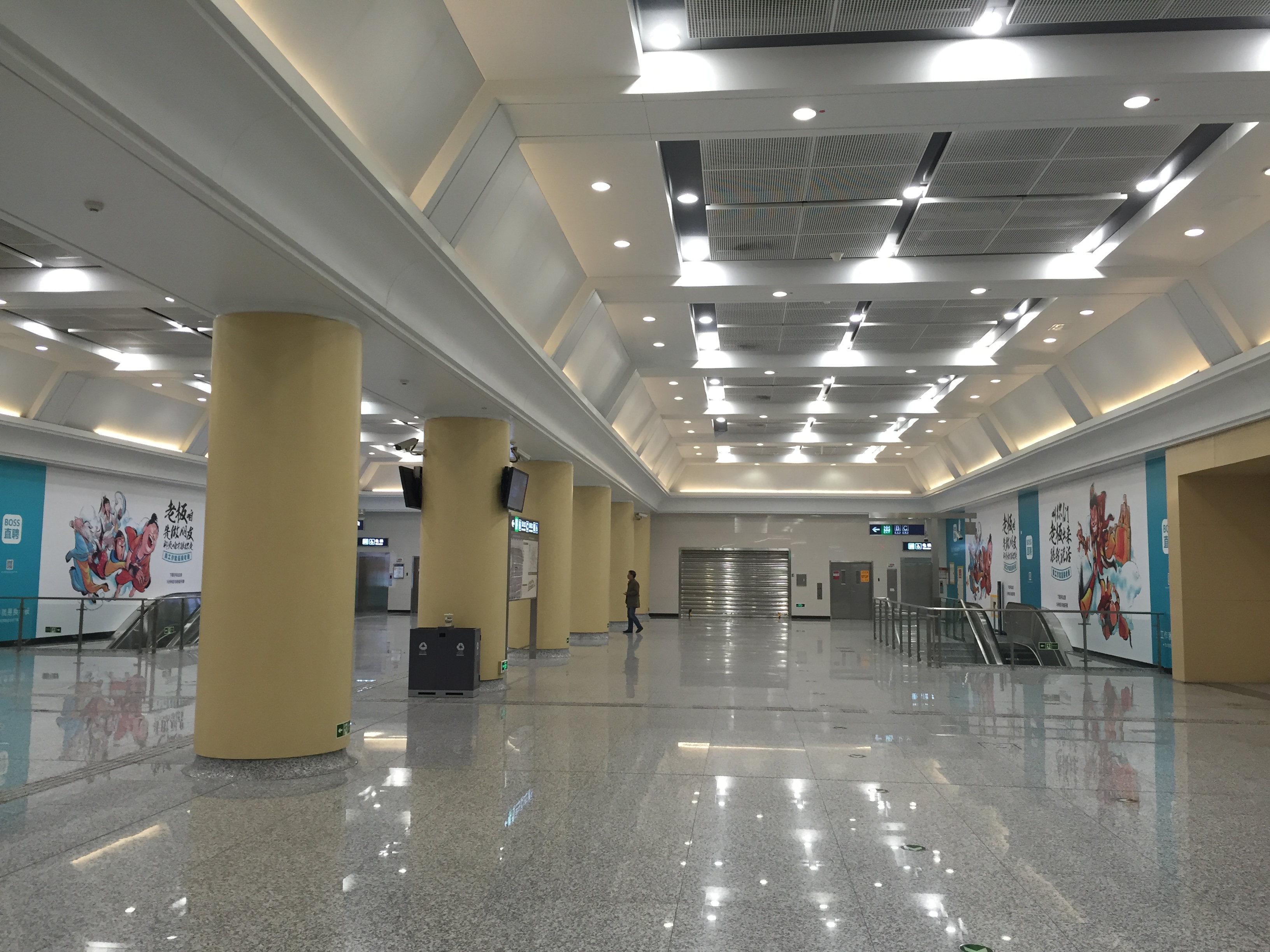 Hall of Qinghuadongluxikou Station